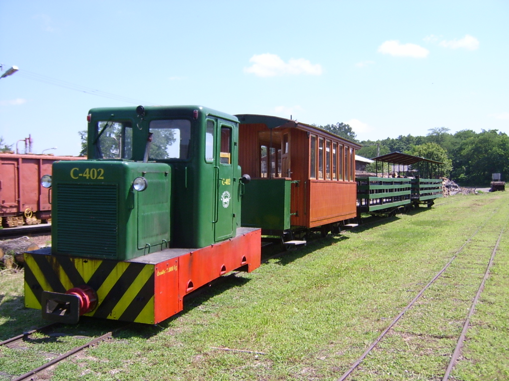 C–50 typ. diesel lokomotiv in Forest Railway of Kaszó, Hungary